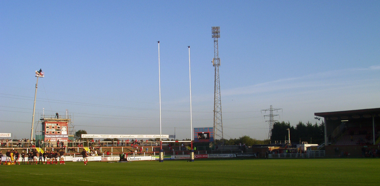 Stradey Park, Llanelli prior to the Magners League rugby match between Llanelli Scarlets and Glasgow Warriors. The image shows the East Terrace. On the top of the cherry picker towards the left of the photo is a BBC cameraman. To the right is the scoreboard. On the pitch below these, the Scarlets team are warming up. Note the 'sosbans' (saucepans) on top of the goalposts. The blue box to the right of the goalposts is the television studio. The outside broadcast trucks can be seen below the electricity pylon.